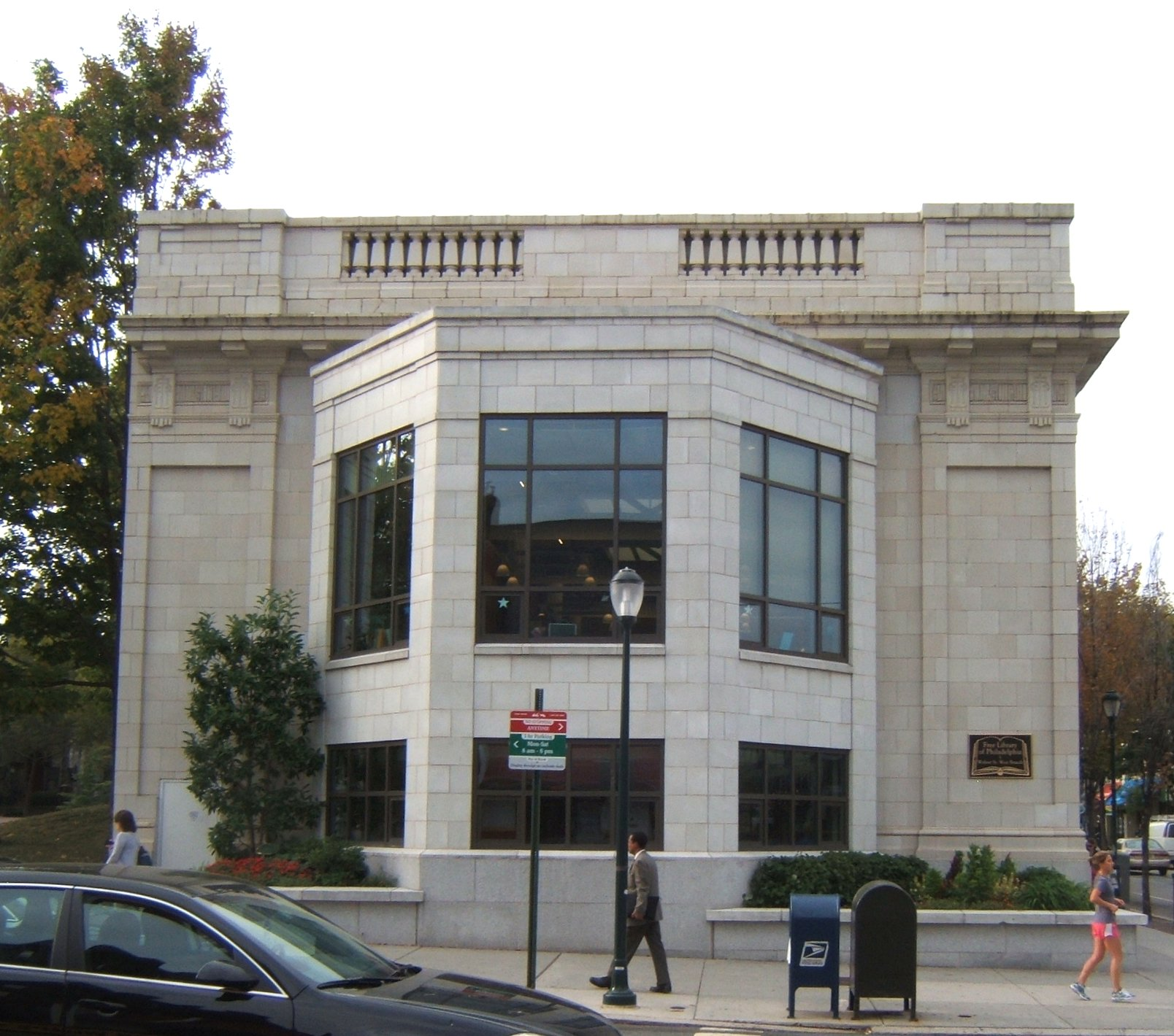 Free Library of Philadelphia, Walnut Street, West Philadelphia Branch, 201 South 40th Street, Philadelphia, PA 19104 View of Walnut Street (north) facade